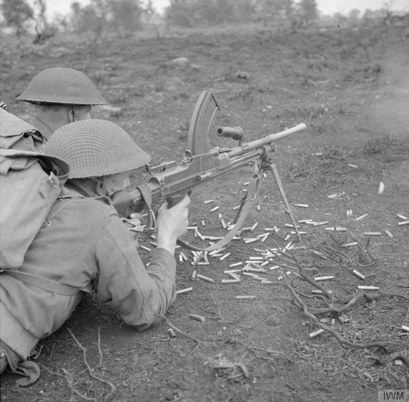 Bren gun team in action at a battle school in Eastern command, 14 September 1942.